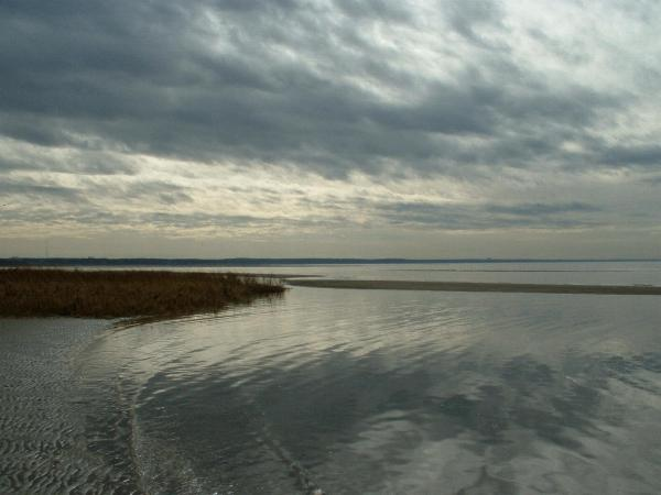 Looking southeast at Cape Cod Bay, as viewed from First Encounter Beach in Eastham, Massachusetts.